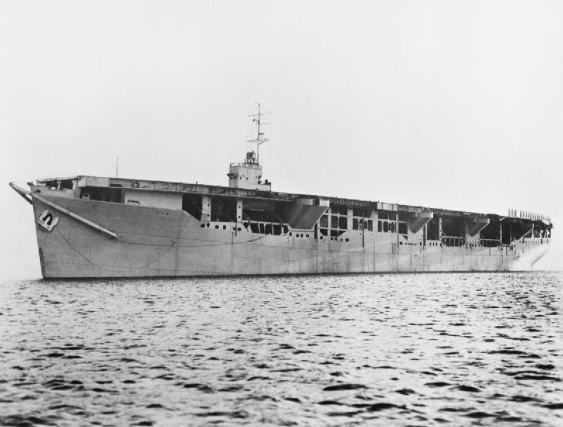 The Merchant Aircraft Carrier (MAC) ship MV Alexia, between 1943 and 1945.